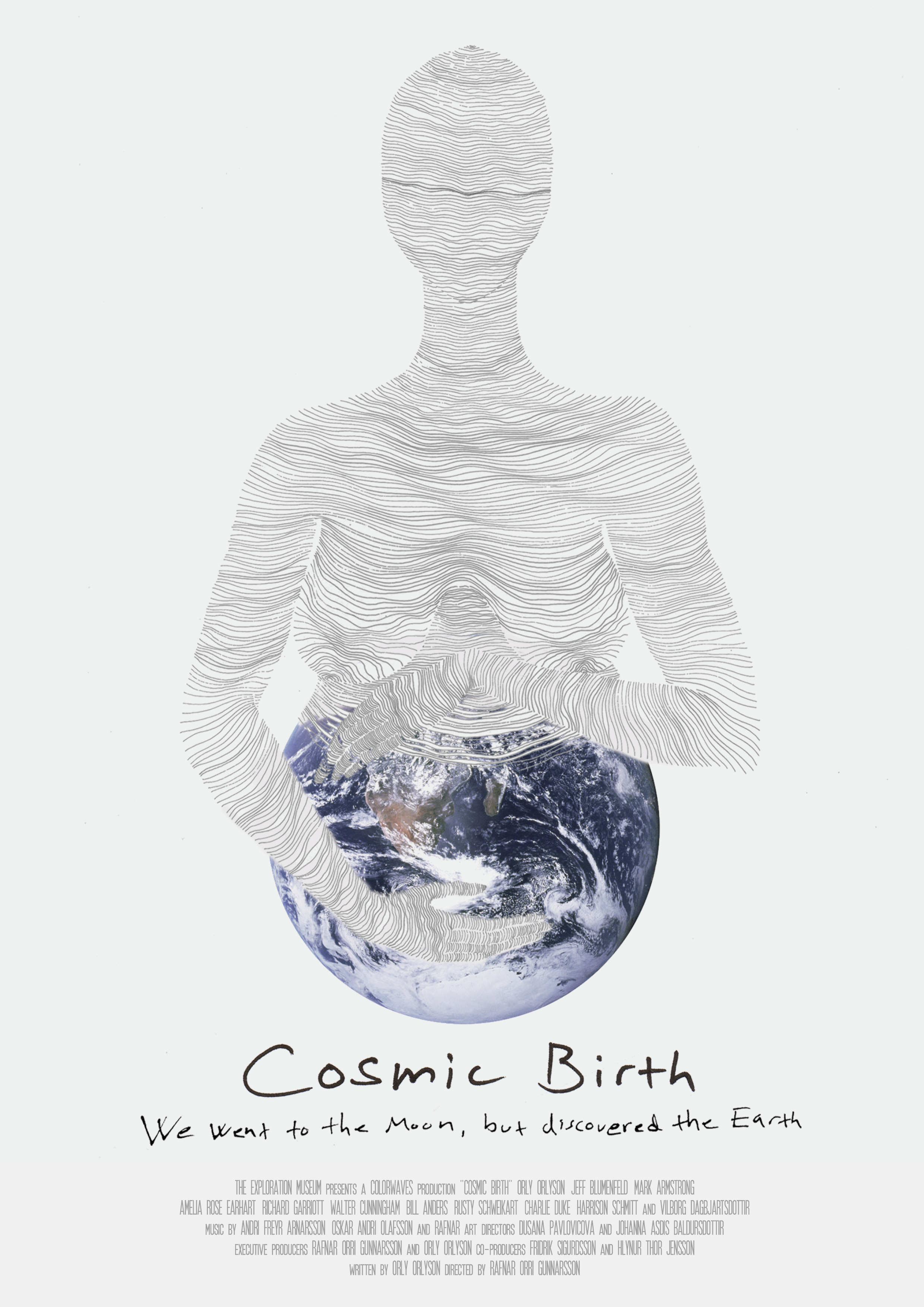 Theatrical release poster for the documentary film Cosmic Birth, about mankind's journey to the moon. The poster is designed by artist Dušana Pavlovičová.